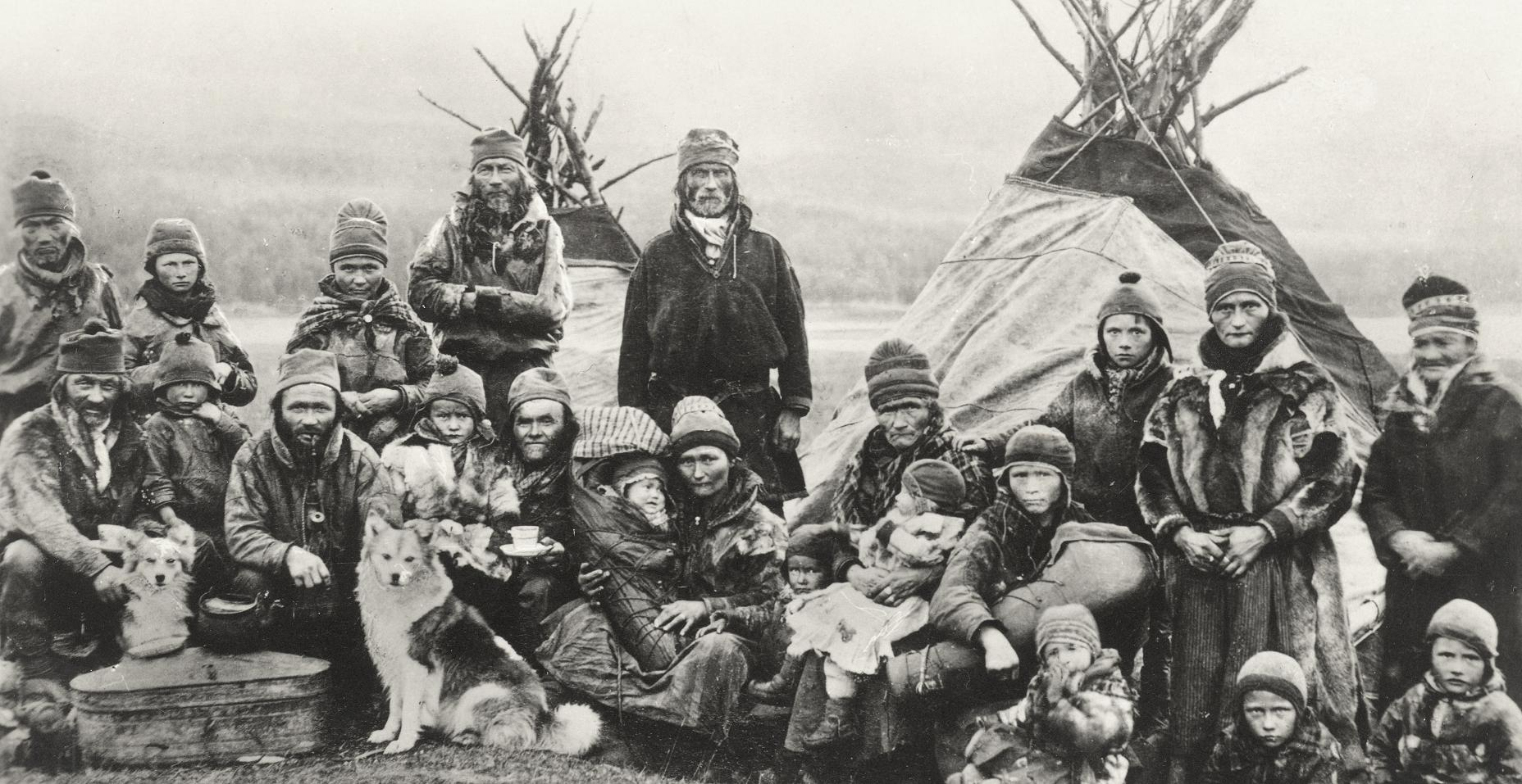 Nordic Sami (Saami) people in Sapmi (Lapland) in front of two Lavvo Tents. The Sami people in the photo are Nomads. Norway Sweden.